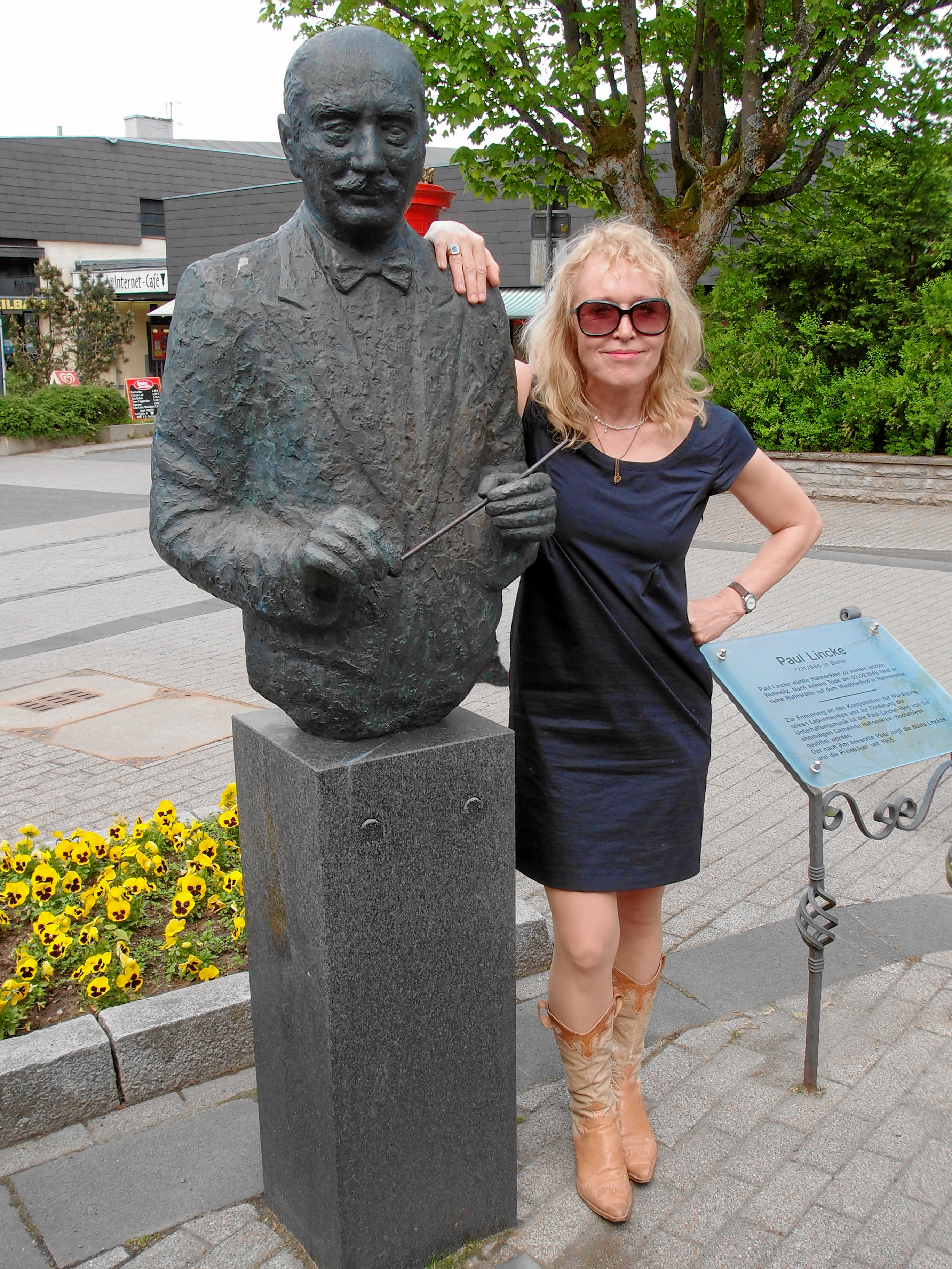 Annette Humpe at the award ceremony of the Paul-Lincke-Ring in Goslar-Hahnenklee at the Paul-Lincke-memorial. On the ring finger of her right hand she wears the Paul-Lincke-Ring.